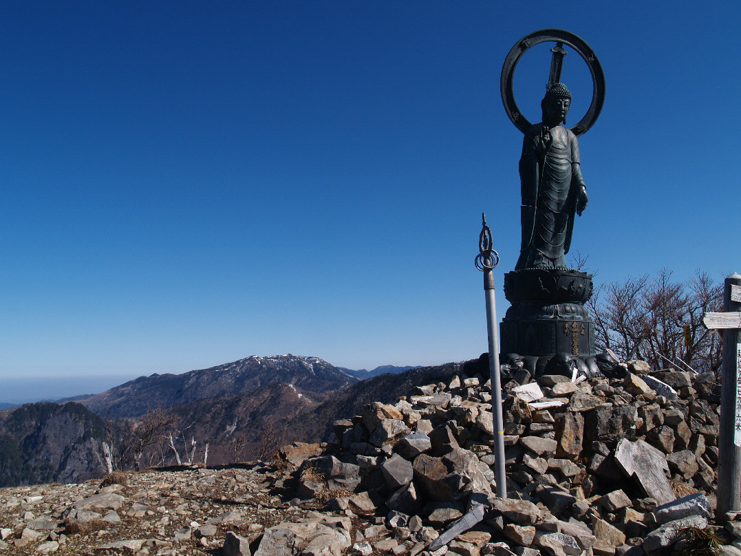 Views from Mount Shaka (Nara).